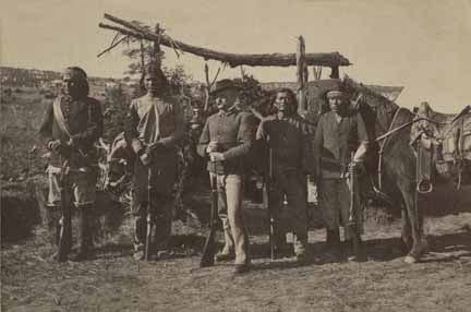 US Army Navajo Scouts at Fort Wingate, New Mexico with soldier from K Troop, 4th Cavalry. circa 1890